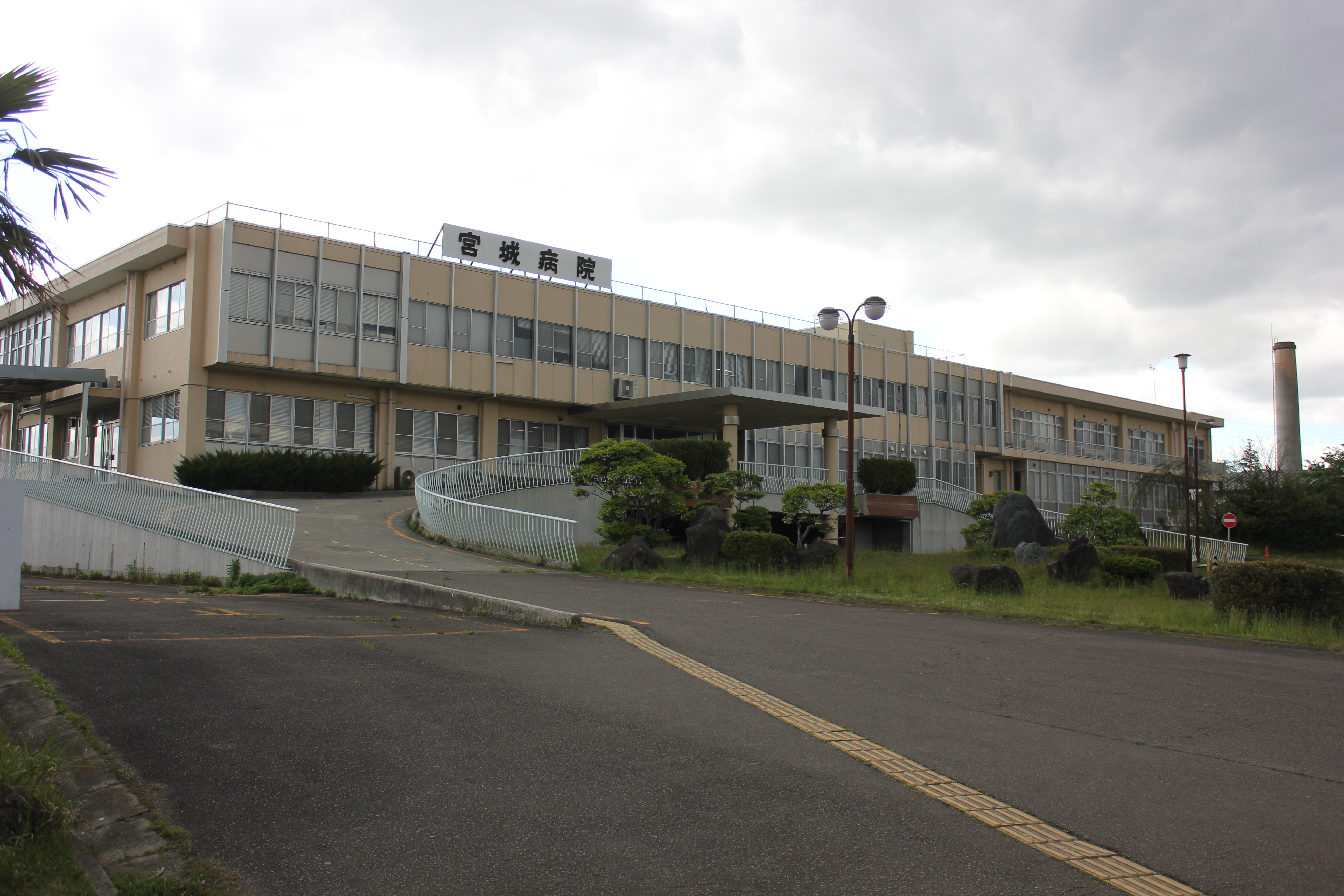 National Hospital Organization Miyagi National Hospital